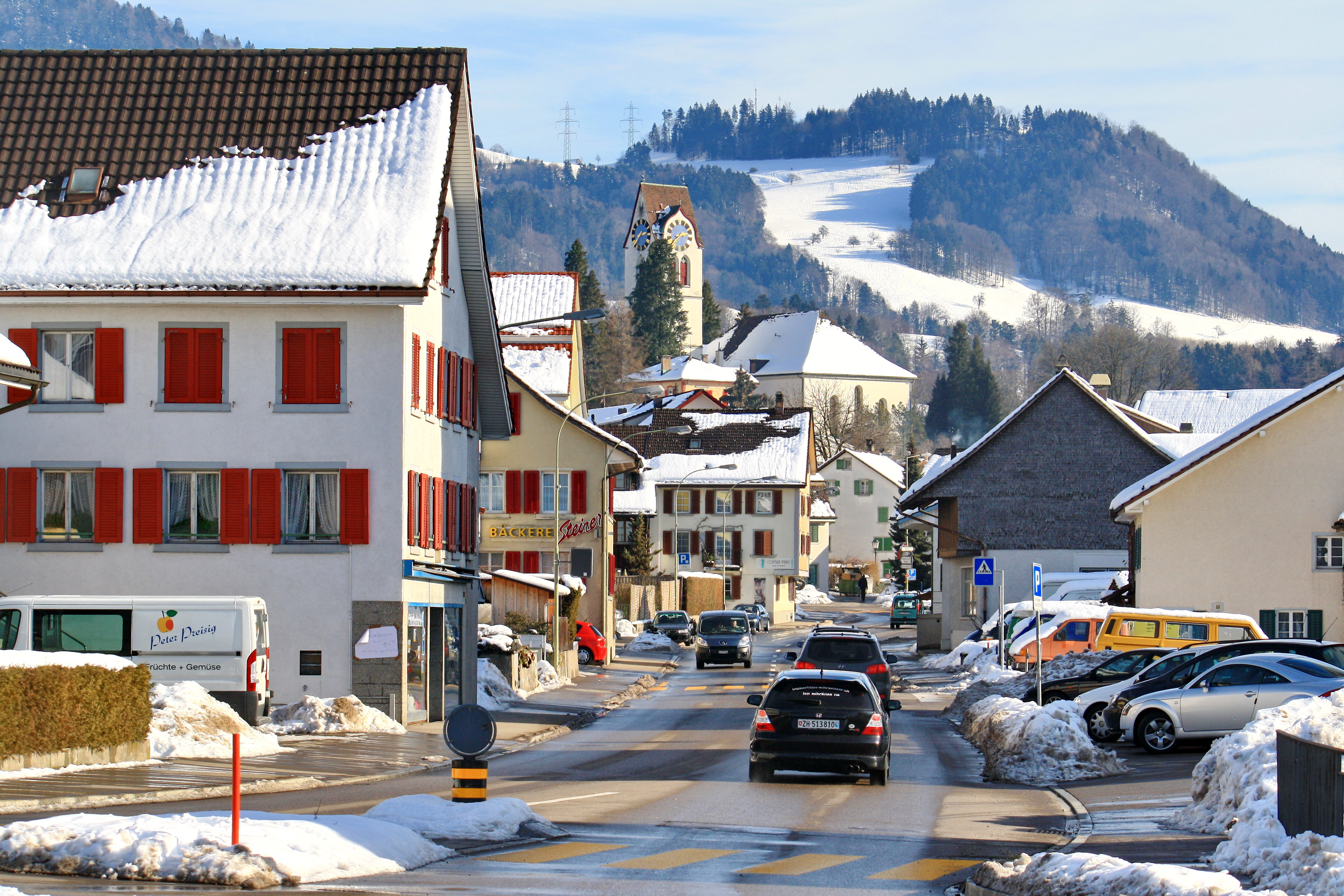 Zürichstrasse in Hinwil (Switzerland), Reformierte Kirche and Bachtel respectively Hasenstrick in the background